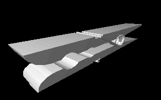 A Rendering Produced by AutoSHADE 386. This 3D model was created in AutoCAD Release 11 using the AME Solid modeler in the spring of 1992.